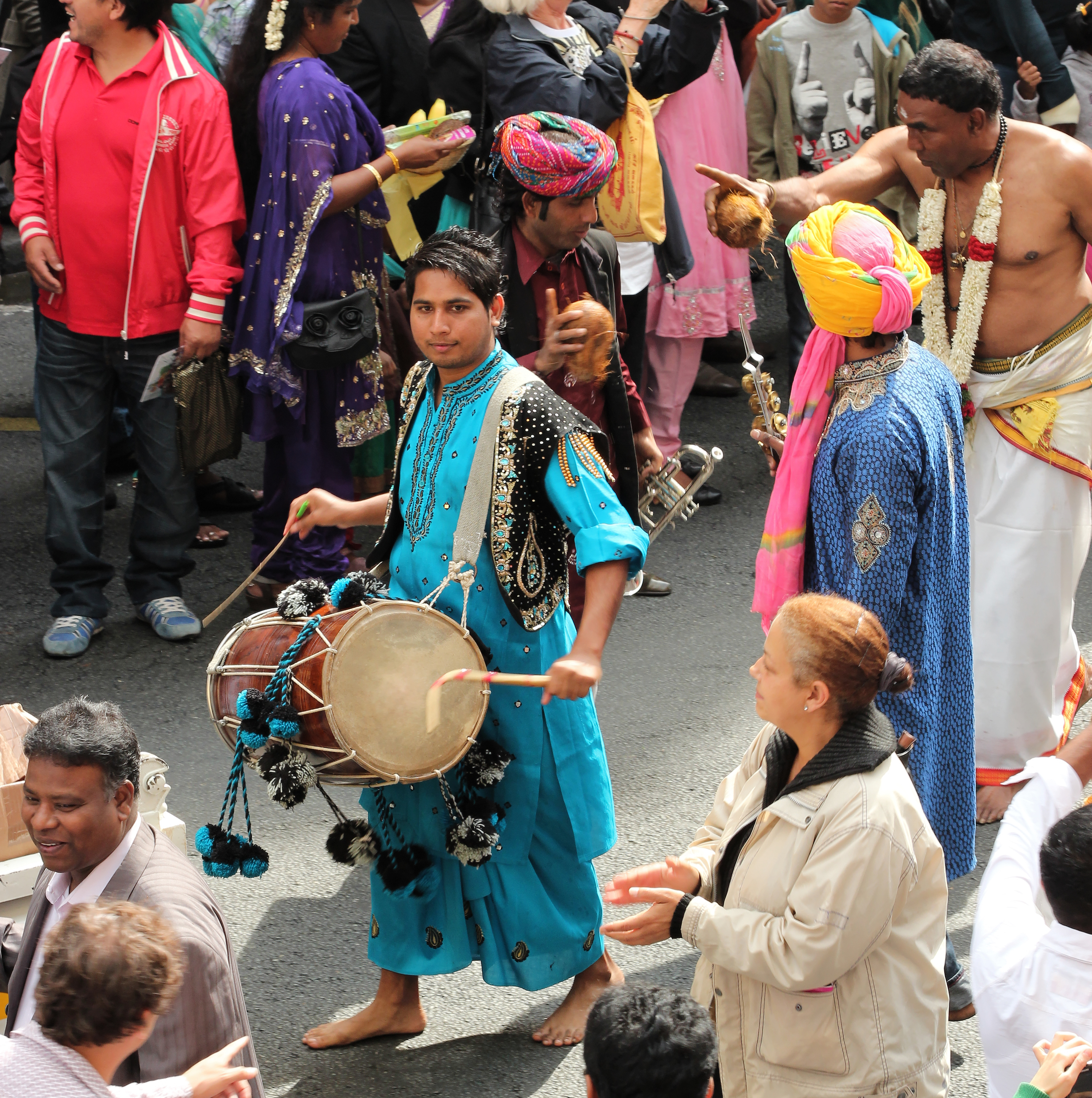 2012 celebration of Ganesh, Paris.